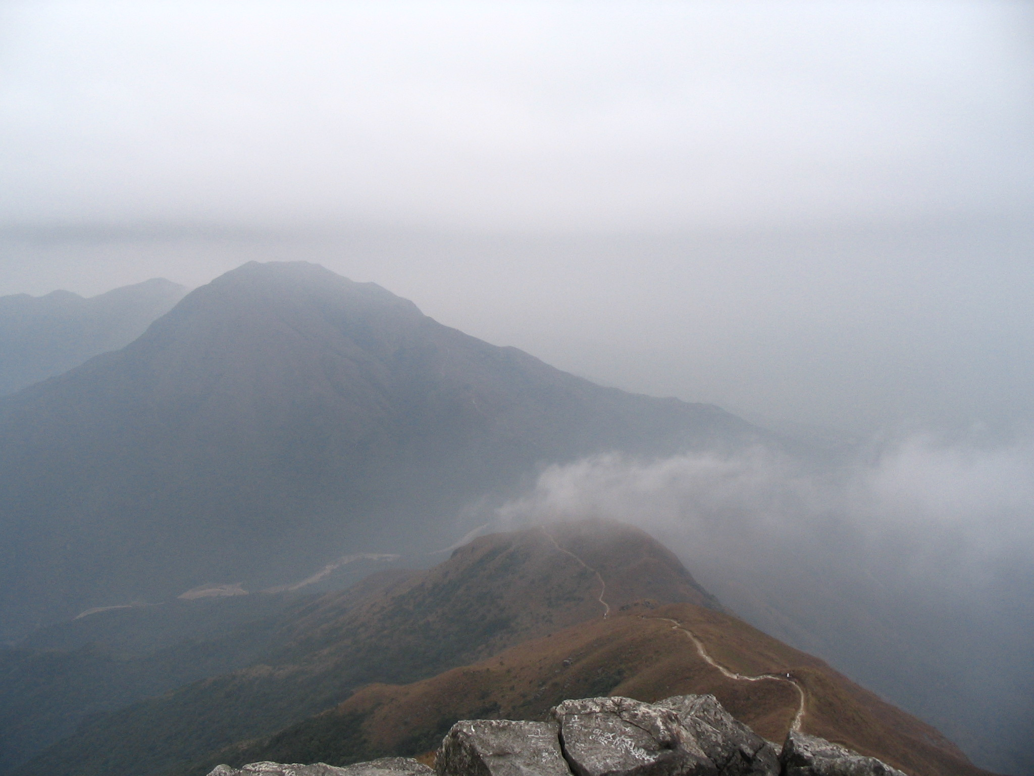 Photo of Pak Kung Au